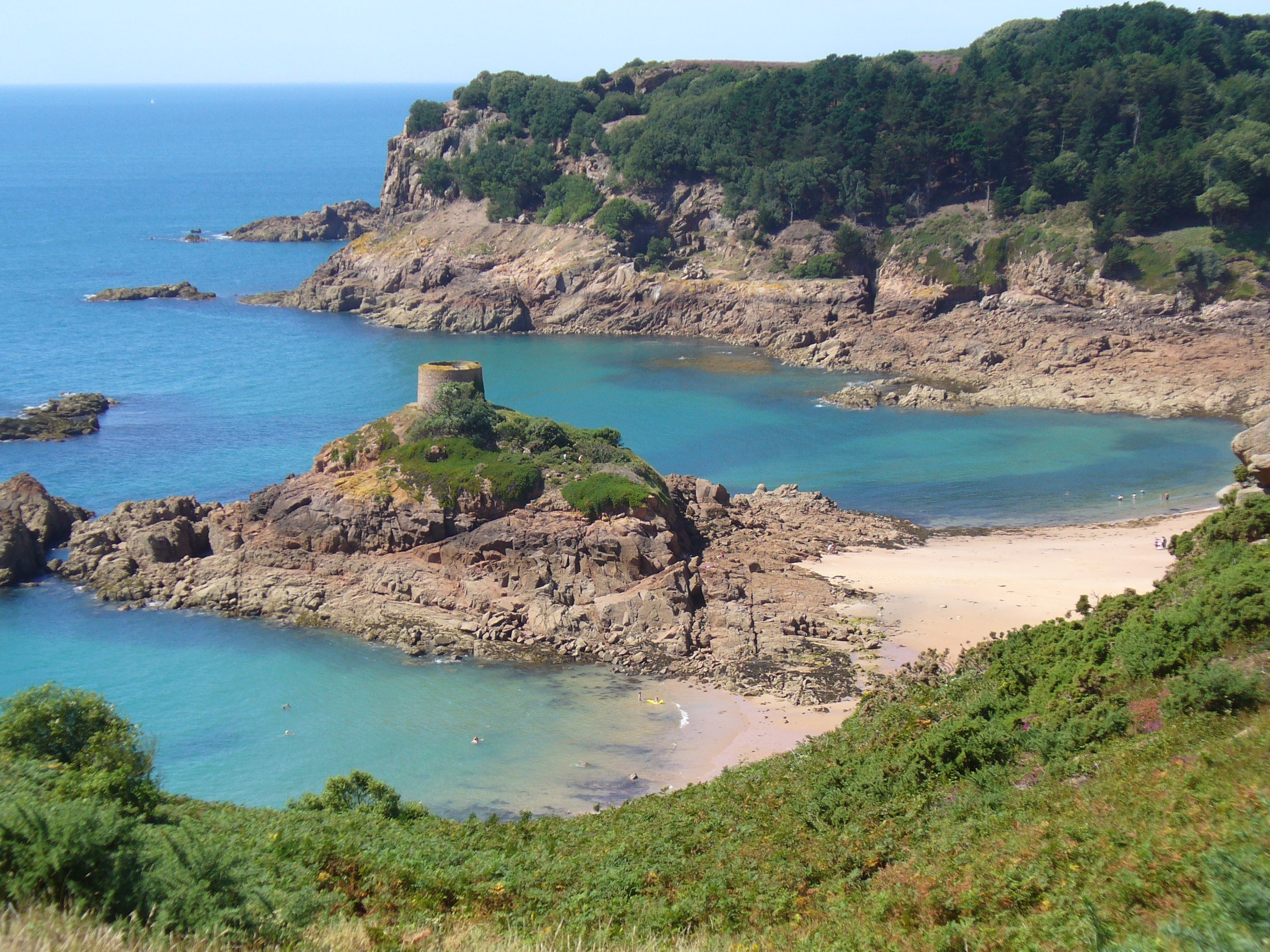 A view of L'Île au Guerdain (a tidal island; here seen during low tide) with Portelet Tower in Saint Brelade, Jersey.